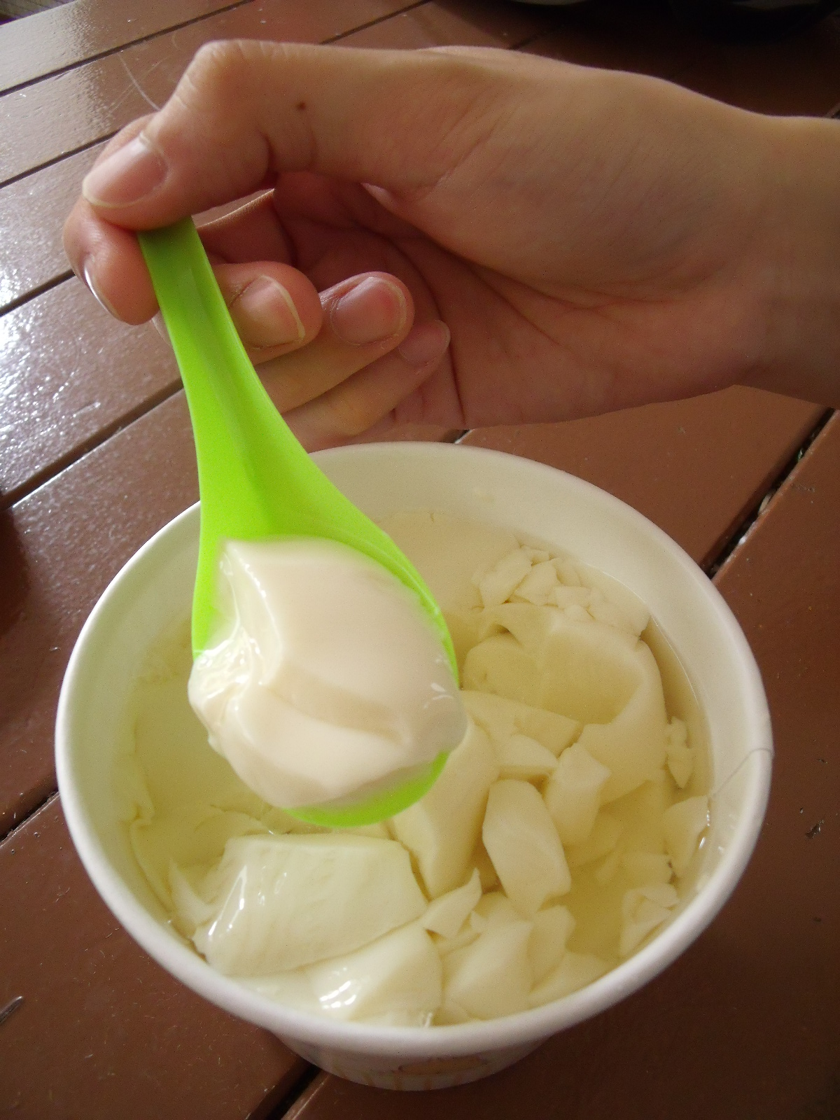 I'm enjoying Dòuhuā.